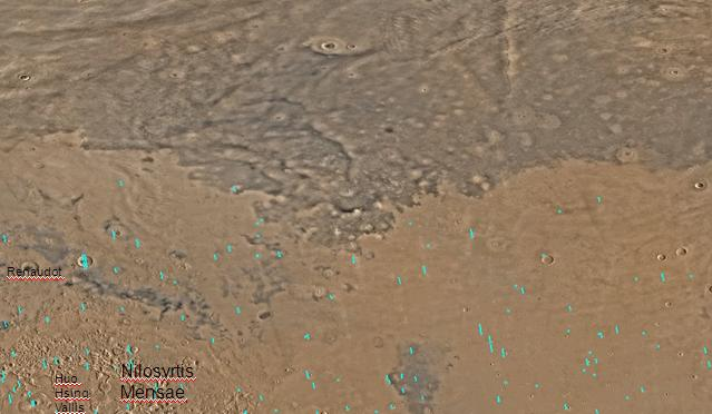 Map of Casius. The small, colored rectangles represent image footprints for the narrow angle camera on the Mars Global Surveyor. Some are about 1 mile wide, the otheers are about 2 miles wide. The map was made by the U.S. Geological survey for NASA.